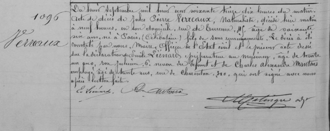 Entry of Jules Pierre Verreaux's daeth in 3rd arrondissement of Paris